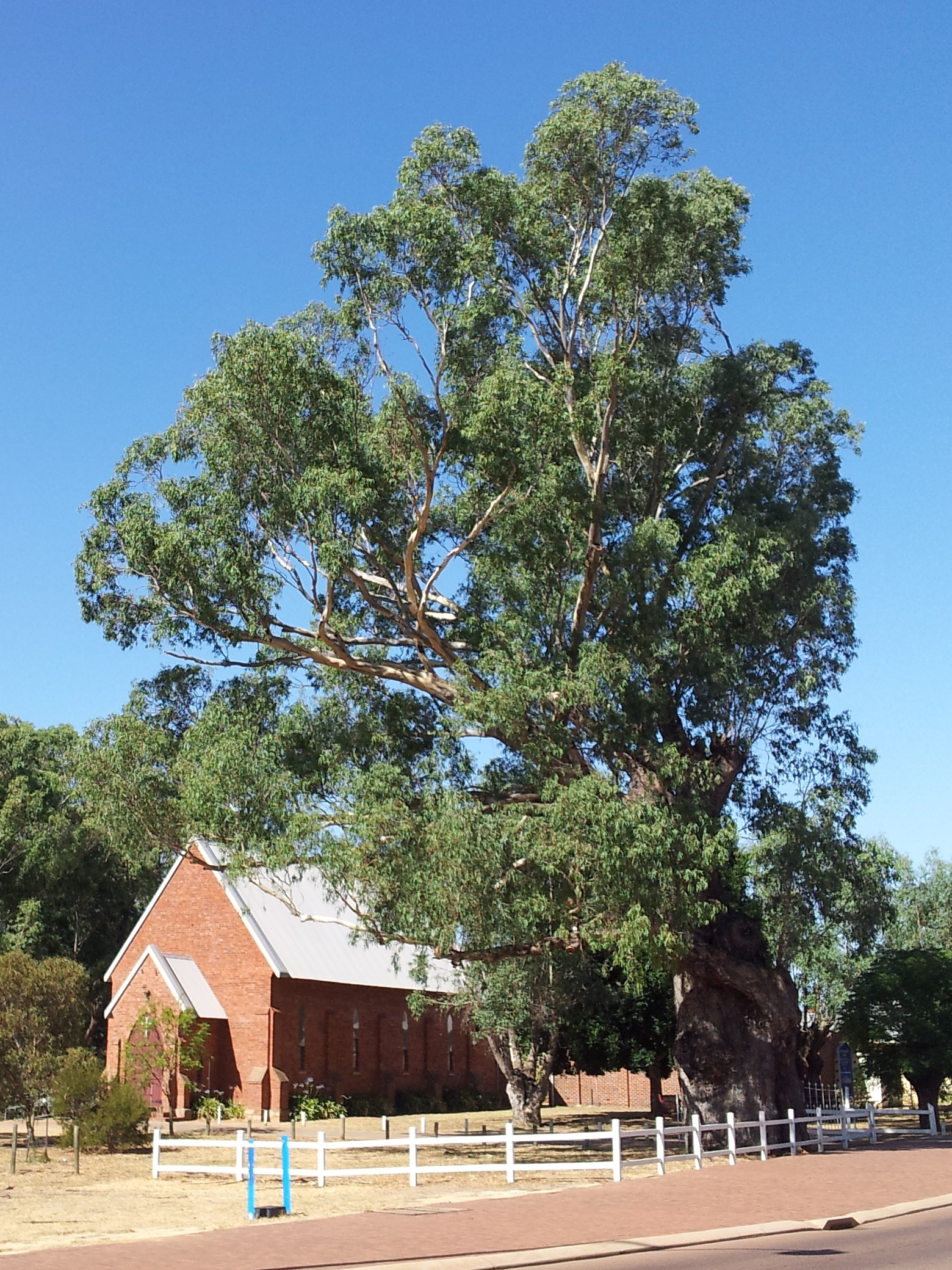 St Stephens Church and flooded gum in Stirling Terrace, Toodyay, Western Australia